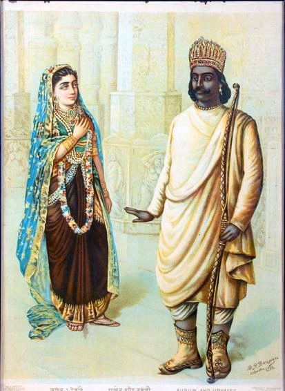 According to the Hindu epic Mahabharata, Arjuna was once was invited to his father, Indra's palace, where one of the heavenly maidens, Urvashi (Urvasee) was attracted to him. She tried enticing Arjuna, but he showed restraint out of respect, since she had once been married to his ancestor King Pururava, and hence, Arjuna considered her as a 'mother figure'. Urvashi felt insulted because a mere mortal was able to resist her, and so she cursed Arjuna, that he would become a eunuch and have to live amongst women, dancing and singing, for the rest of his life. Later, upon Lord Indra's request, Urvashi curtailed the curse to a period of just one year. This oleograph or Arjuna and Urvasee is by B.P. Banerjee. It was published in Calcutta in the early 1900s. The size of the artwork is 20 x 14 inches without frame, and 24 x 18 inches with frame. The artwork is in good condition, but the frame is slightly damaged.